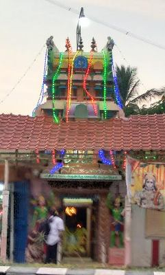 Thanajvur Lakshathope jayaviraanjaneyartemple தஞ்சாவூர் லெட்சத்தோப்பு ஜெயவீர ஆஞ்சநேயர் கோயில்